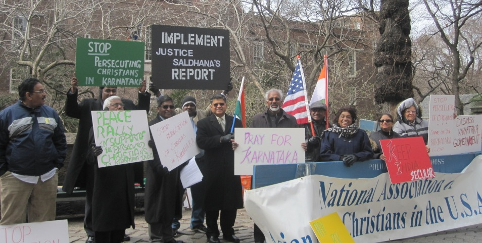 American Christians of Indian origin hold a demonstration in front of the consulate of India in New York, in protest of what they call attacks against Christians in the Indian state of Karnataka. The protest was organized by the National Association of Asian Indian Christians (NAAIC) and the Indian Christian Forum (ICF). Thomas T Ummen (President, Indian Christian forum), Rev. Nehemiah Thomson (President, NAAIC) and Koshi George (Gen. Secretary, NAAIC) led the really.